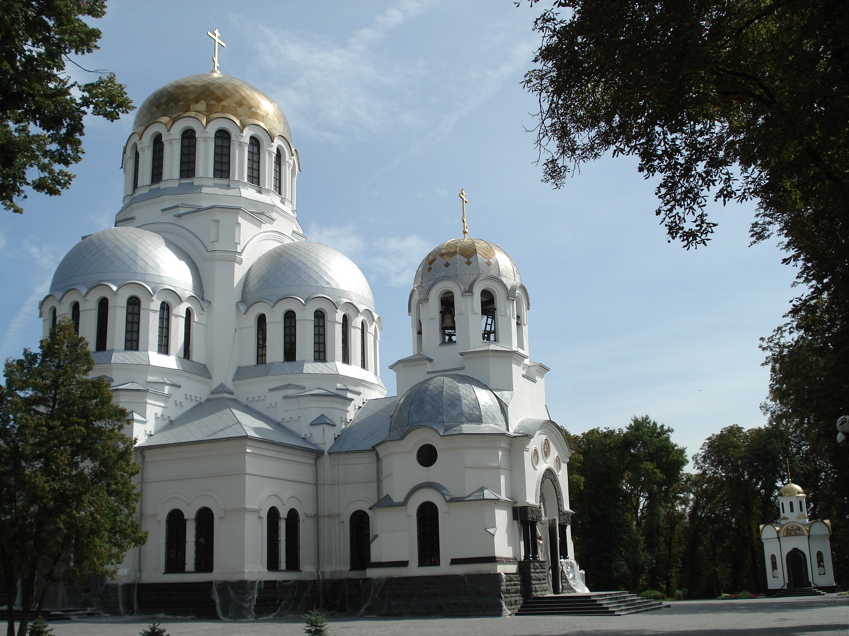 The newly rebuilt Alexander Nevsky Cathedral in Kamenets-Podolsky, Ukraine